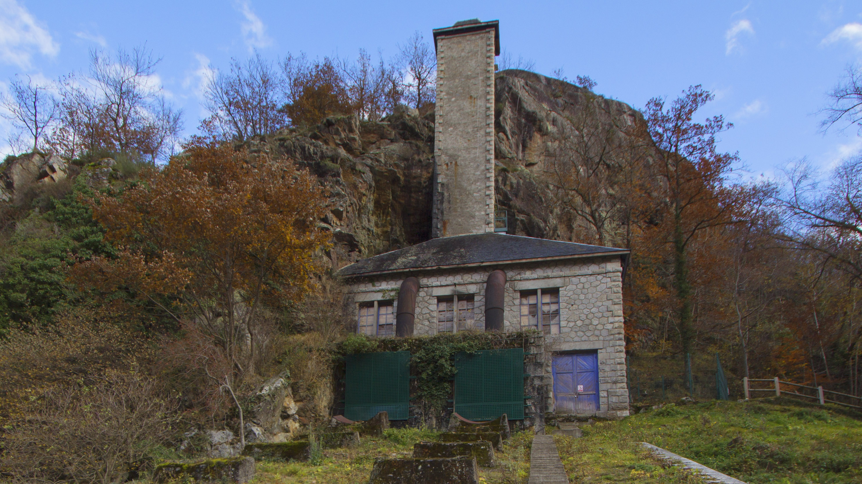 Surge tank of former Cledes hydropower plant, Les (Catalonia)